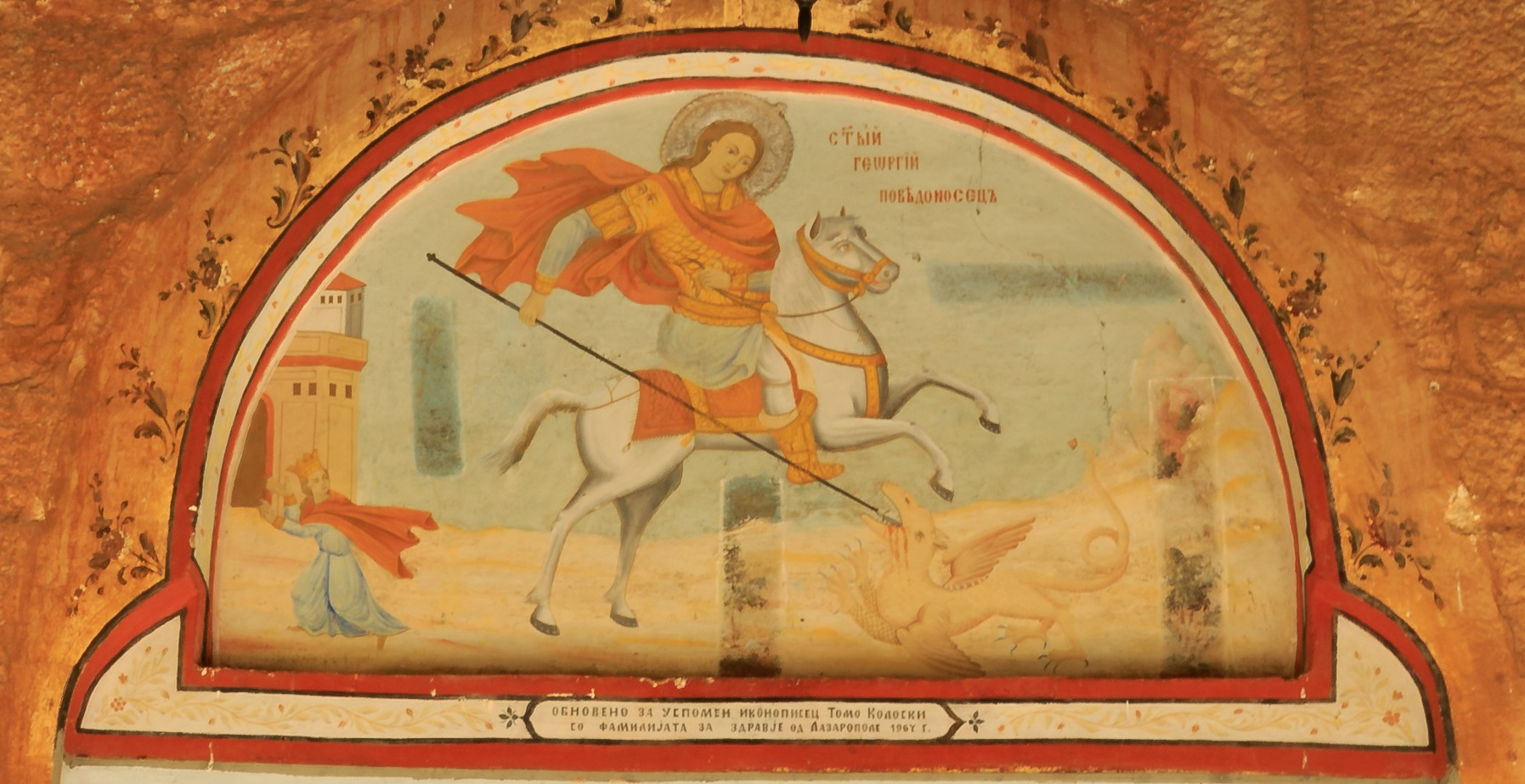 Entry of the St. George's Church in the village Lazaropole